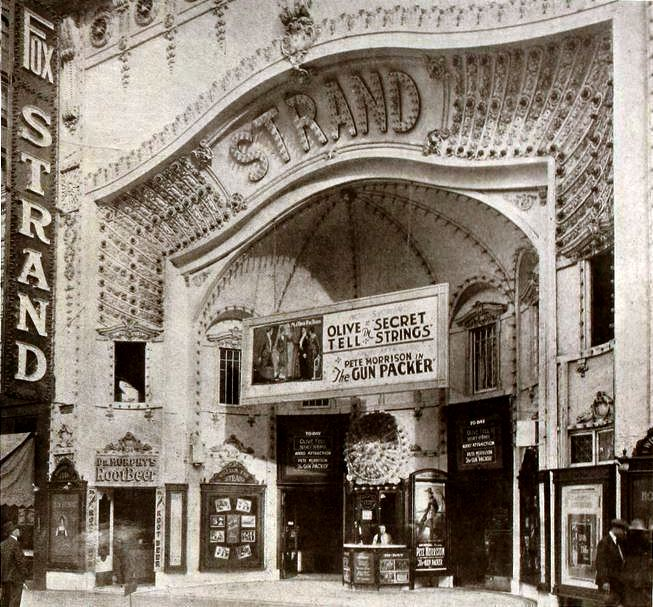 The Strand Theater in Denver, Colorado, showing the films Secret Strings (1918) with Olive Tell and The Gun Packer (1919) with Pete Morrison, on page 4141 of the May 15, 1920 Motion Picture News.